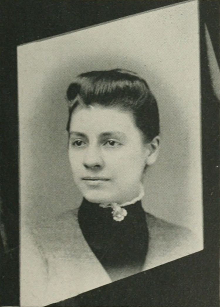 A woman of the century.djvu